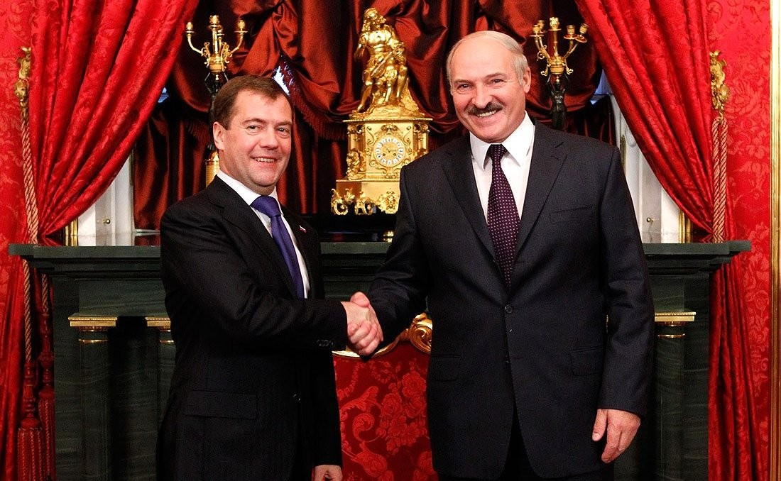 Dmitry Medvedev with President of Belarus Alexander Lukashenko.